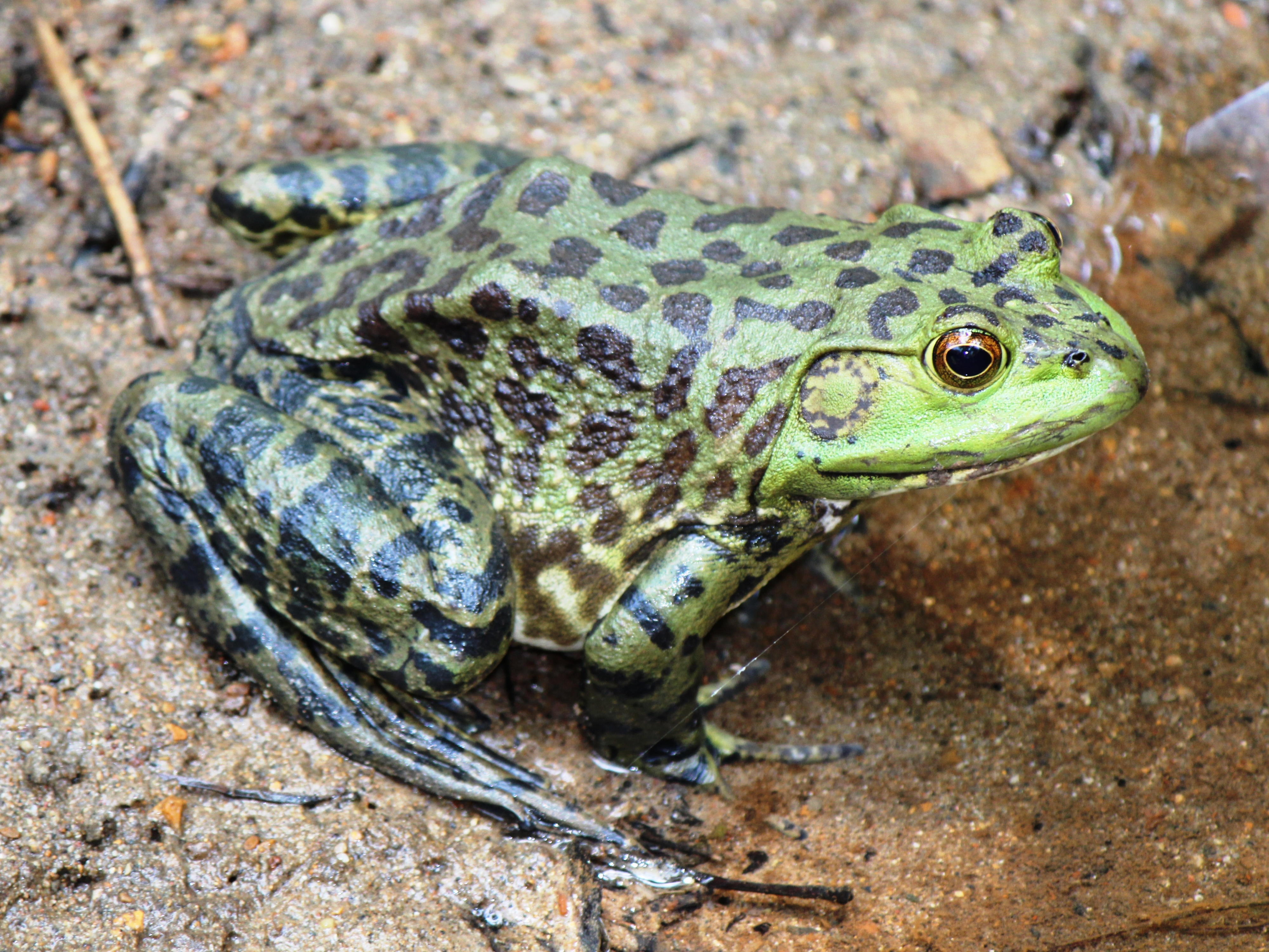 Lithobates catesbeianus (Bullfrog) in Japan